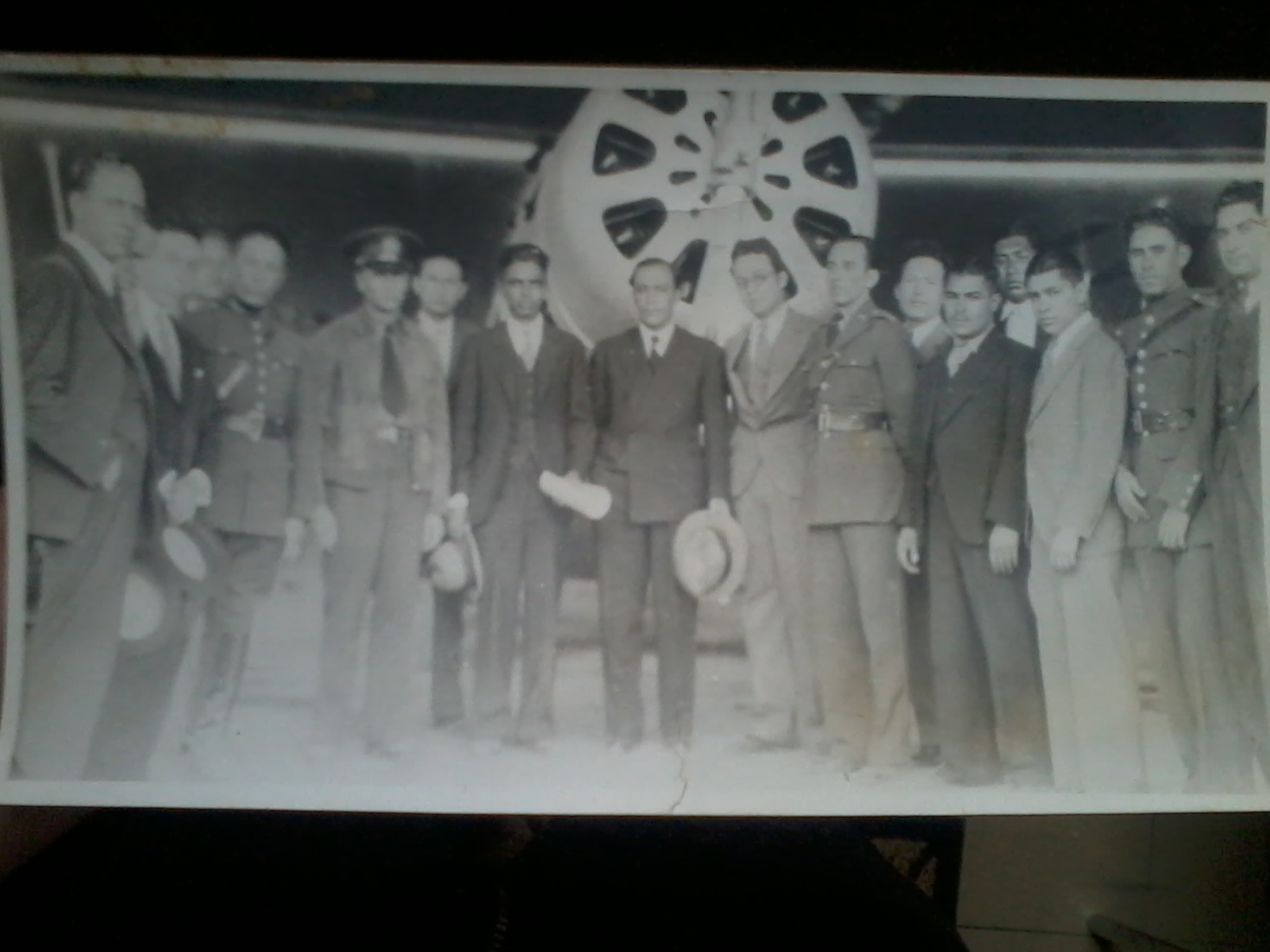 Photograph taken June 16, 1934, of the pilot Francisco Sarabia and the university's rector Manuel Gómez Morín "the day when a parchment was delivered to the university students from Spain", according to the handwritten legend on the back of the photograph. (Archives of the family of Gustavo Sandoval López, 1899-1983.)